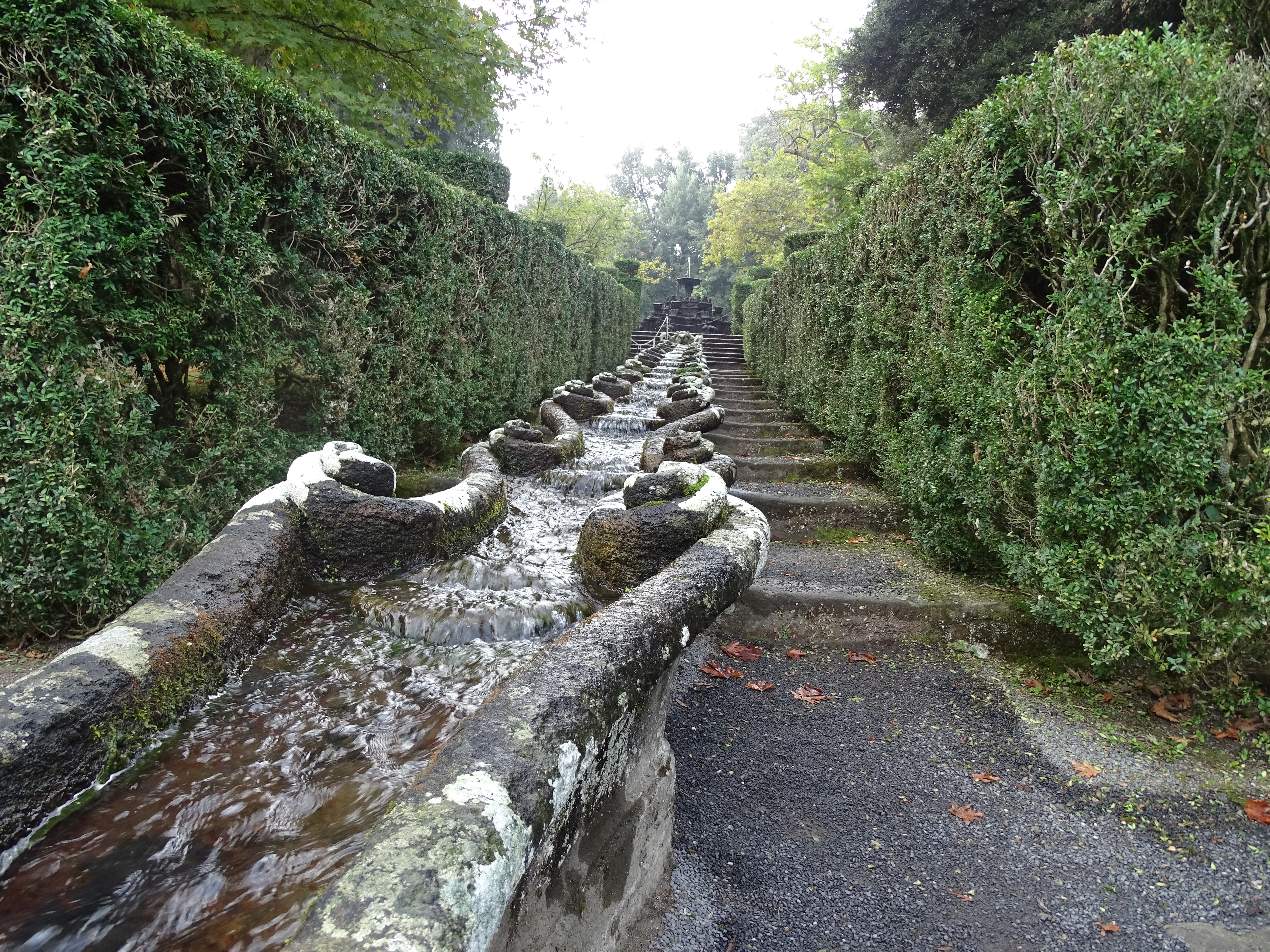 Fountains in the garden of the villa Lante, Bagnaia, Viterbo, Italy